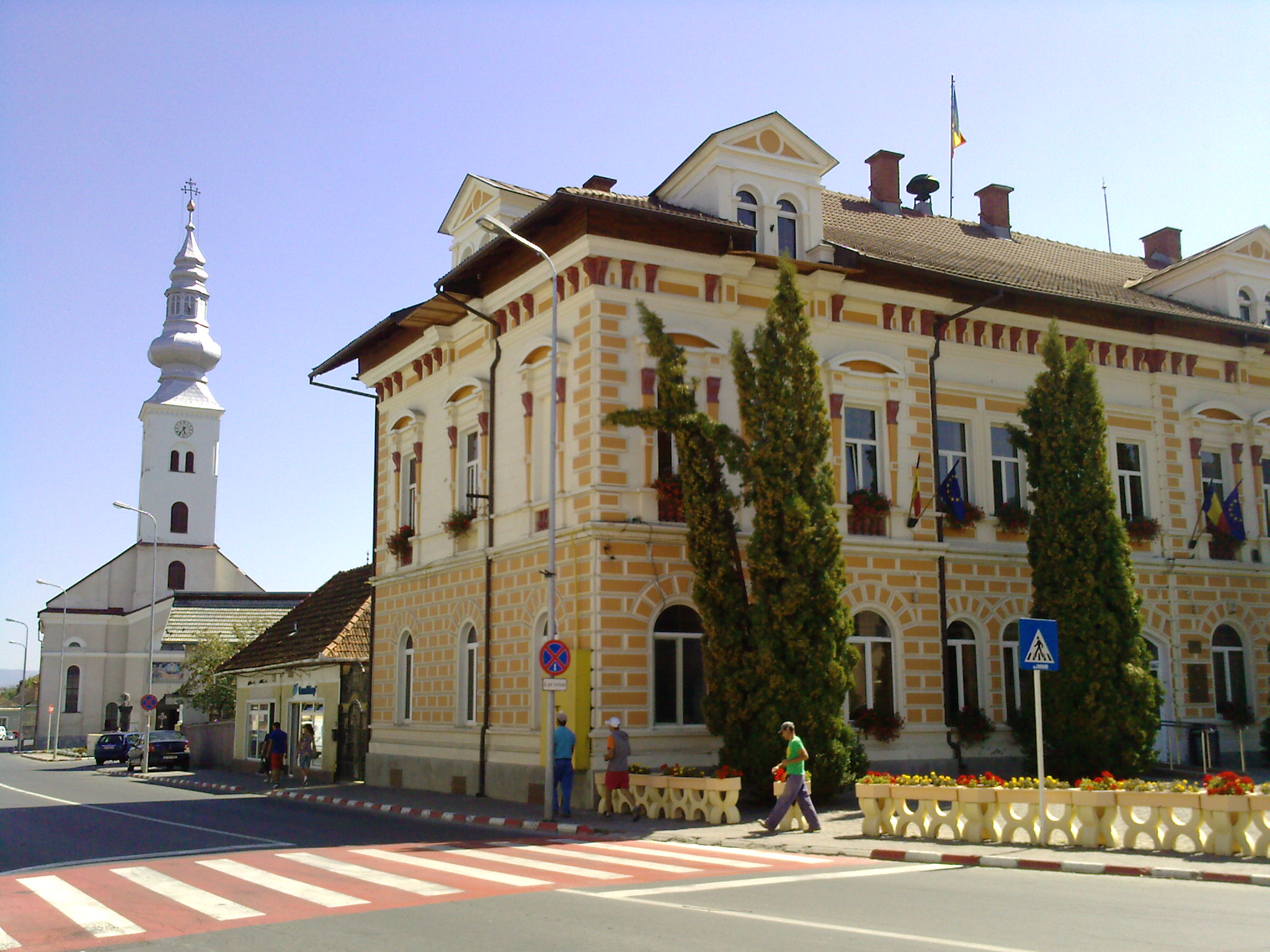 Sacele, Brasov County, Romania